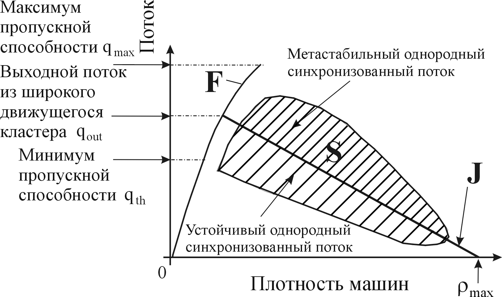 Three traffic phases on the flow-density plane in Kerner’s three-phase traffic theory